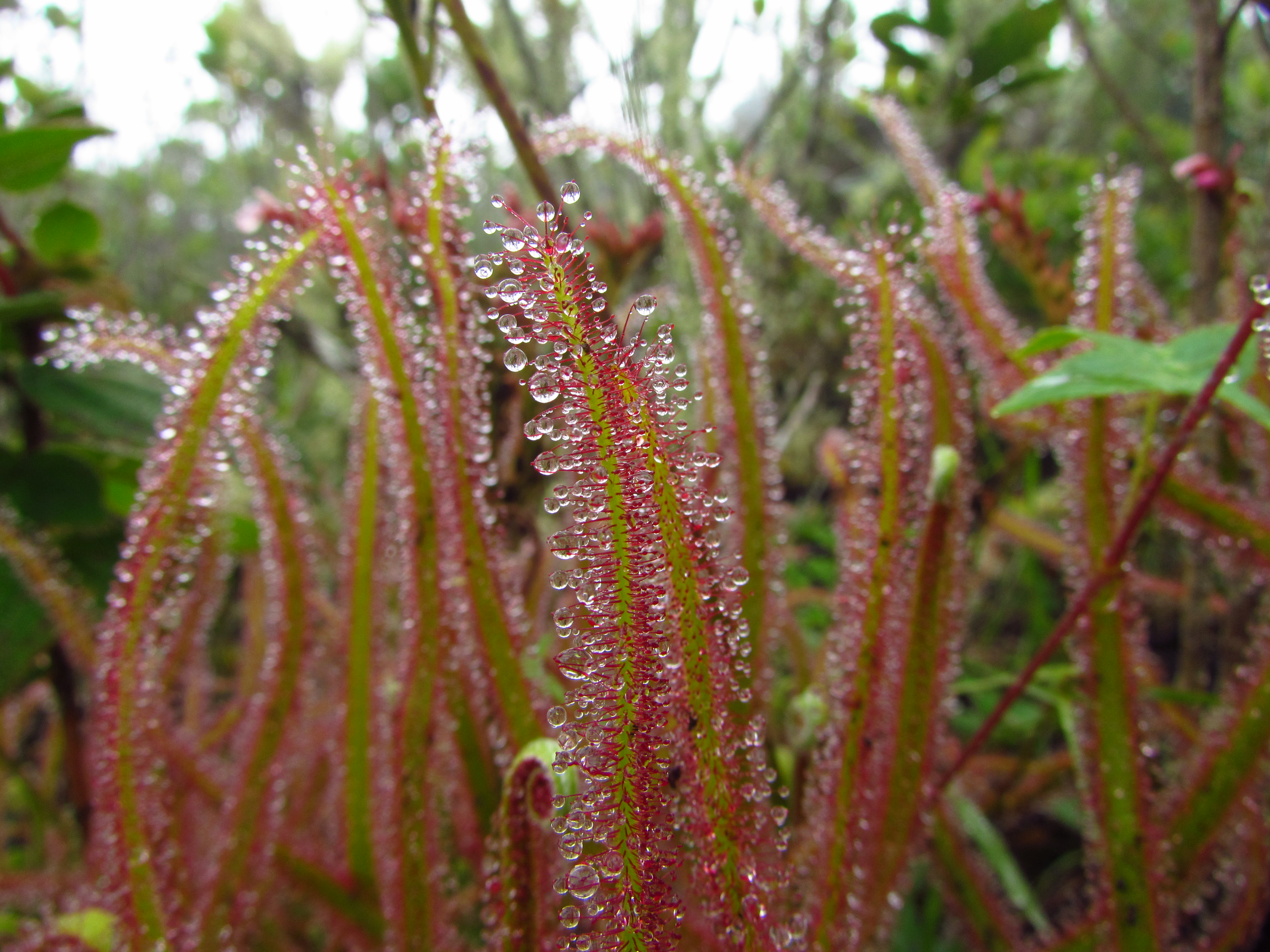 Drosera_magnifica - Minas Gerais, southeastern Brazil